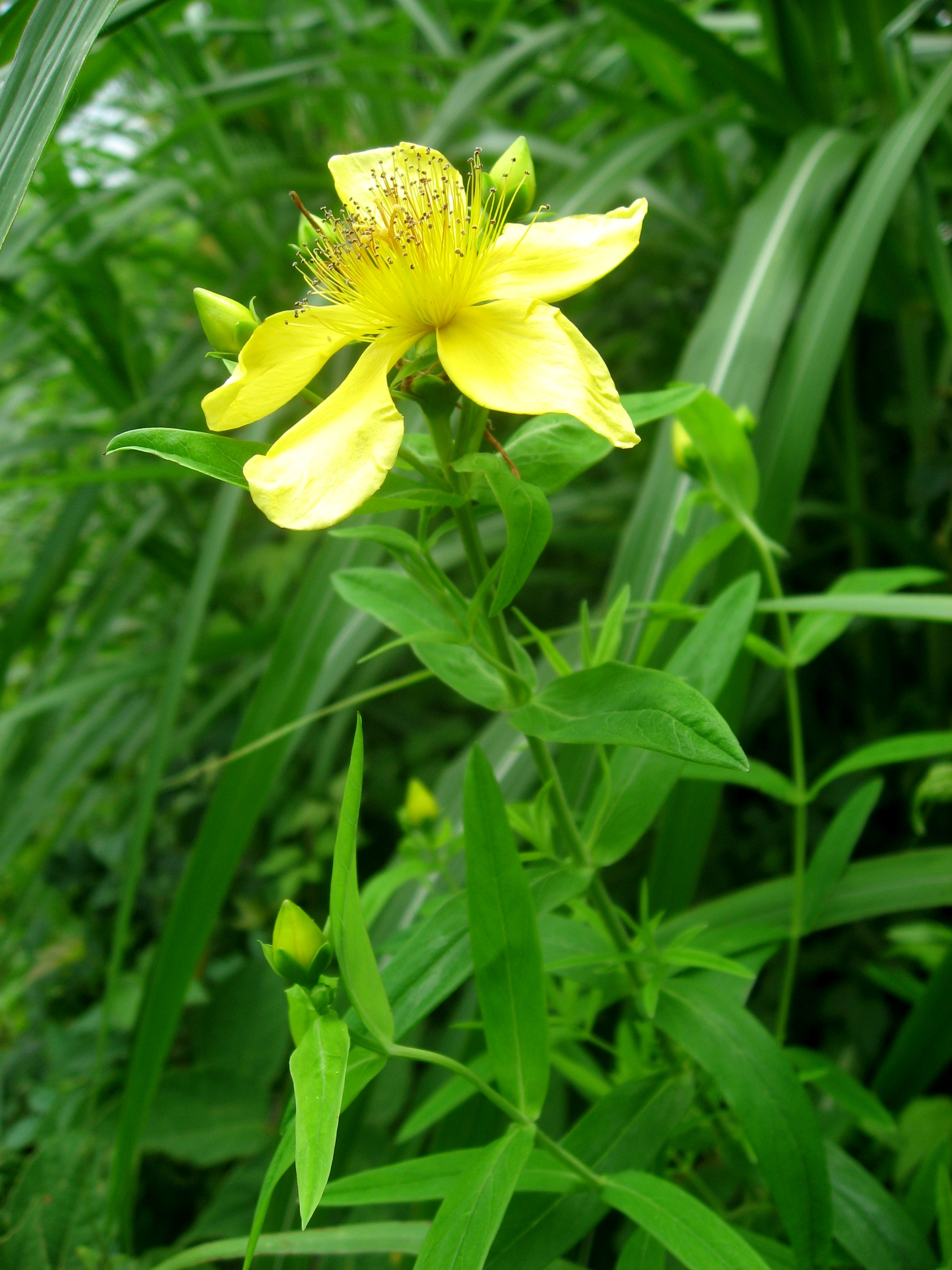 Hypericum ascyron, Aizu area,Fukushima pref.,Japan